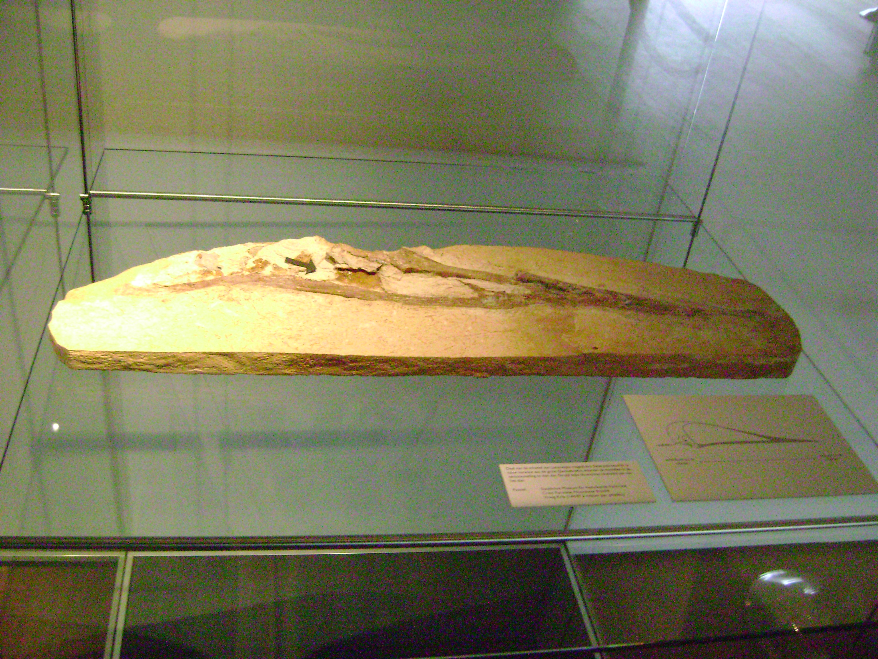 The holotype of the pterosaur Lacusovagus